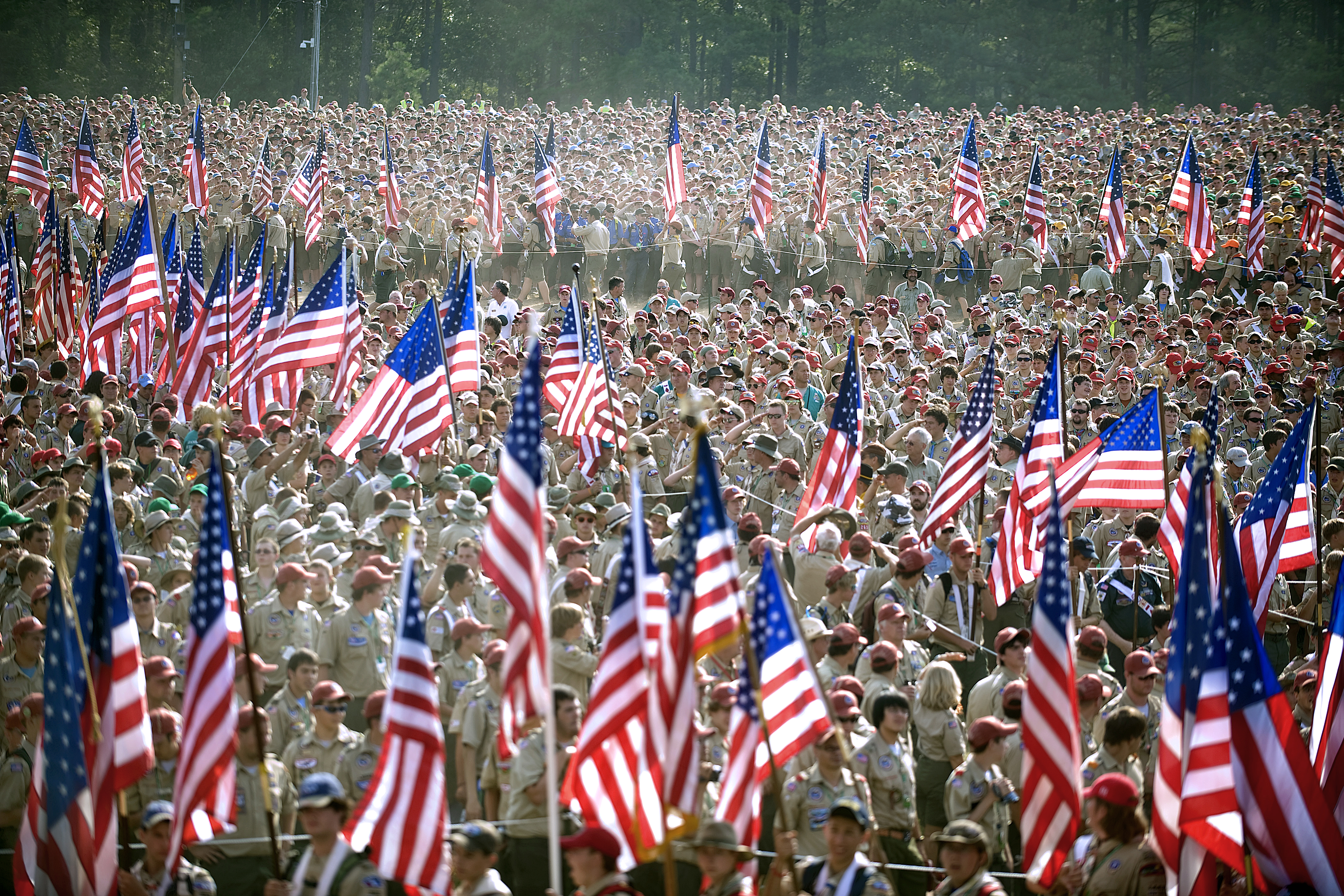 Boy Scouts from across America march in carrying flags as the national anthem plays during the Boy Scouts of America 2010 National Scout Jamboree on Fort AP Hill, Va., July 28, 2010. U.S. Defense Secretary Robert M. Gates addressed an audience of more than 45,000 who came to the 12,000 acre site for 10 days to celebrate the Boy Scouts centennial.